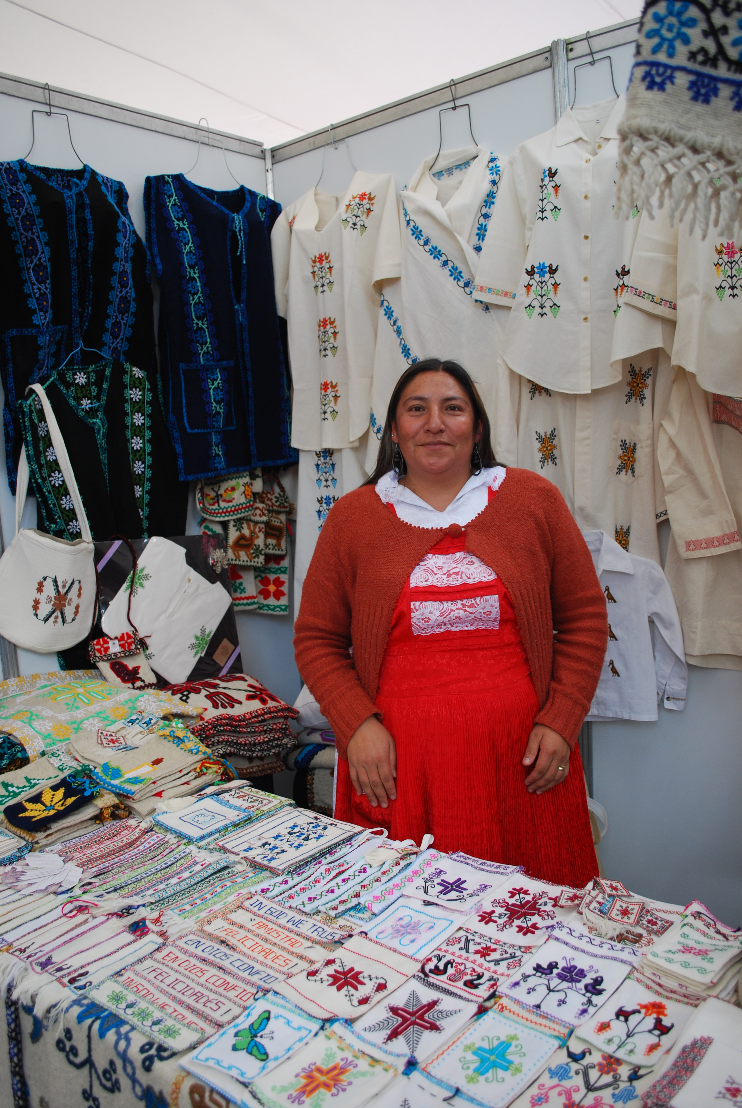 Enith Martinez Fonseca selling pieces made by the La Estrella Mazahua Workshop of San Felipe Santiago, State of Mexico